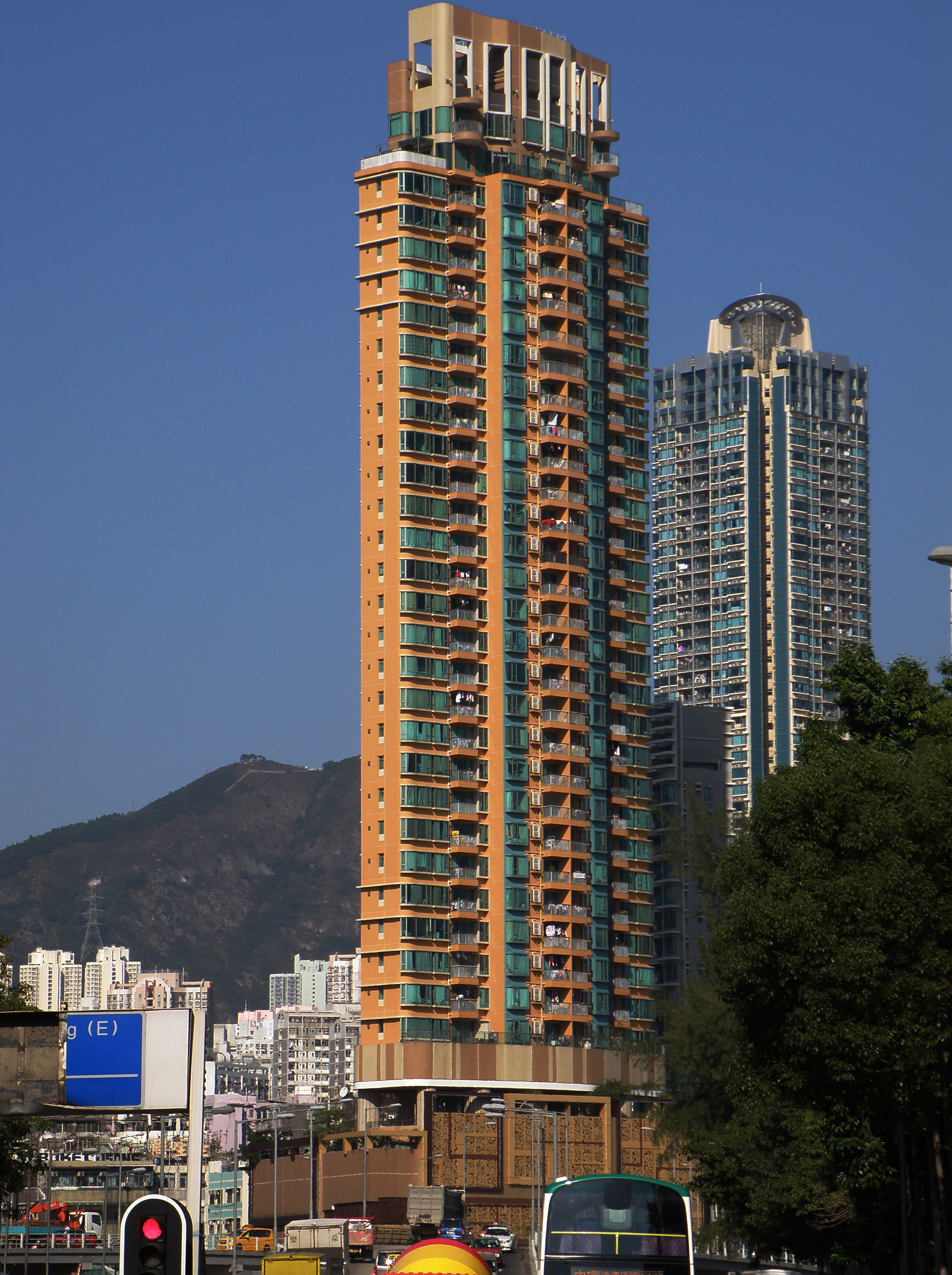 Prince Ritz in Kowloon City, Hong Kong.